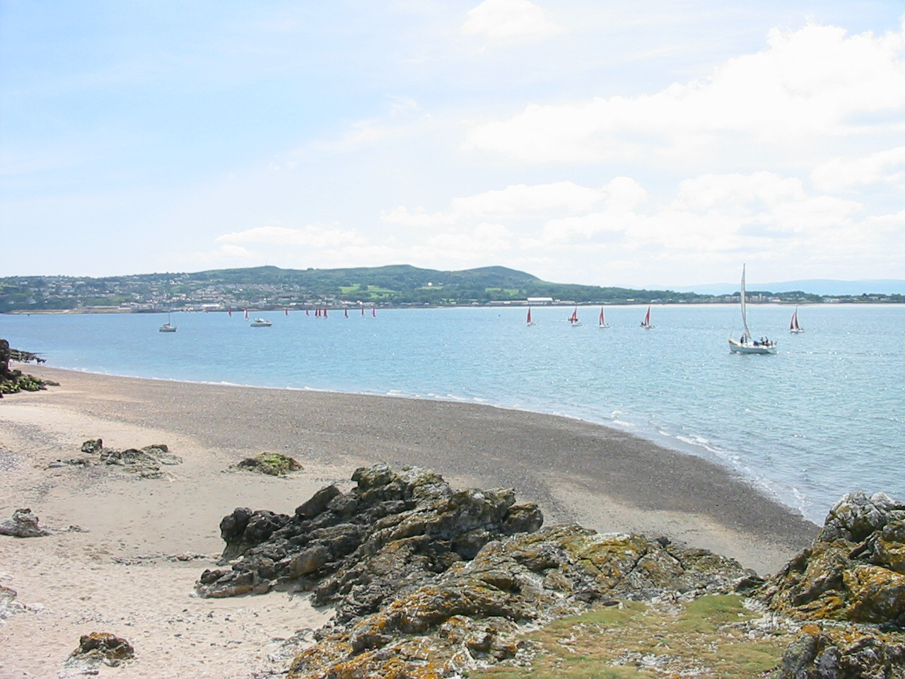 Yachts sailing around Ireland's Eye. Photo taken on Saturday May 28 2005 by Colm Rice.